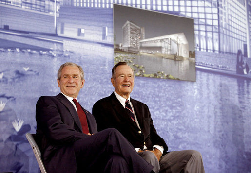 President George W. Bush and former President George H.W. Bush sit on stage at the U.S. Embassy in Beijing Friday, Aug. 8, 2008, during dedication ceremonies. Both are scheduled to attend opening ceremonies scheduled for later in the evening.